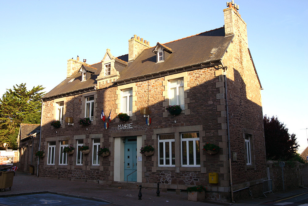 Town Hall of Plouézec, Brittany, France.